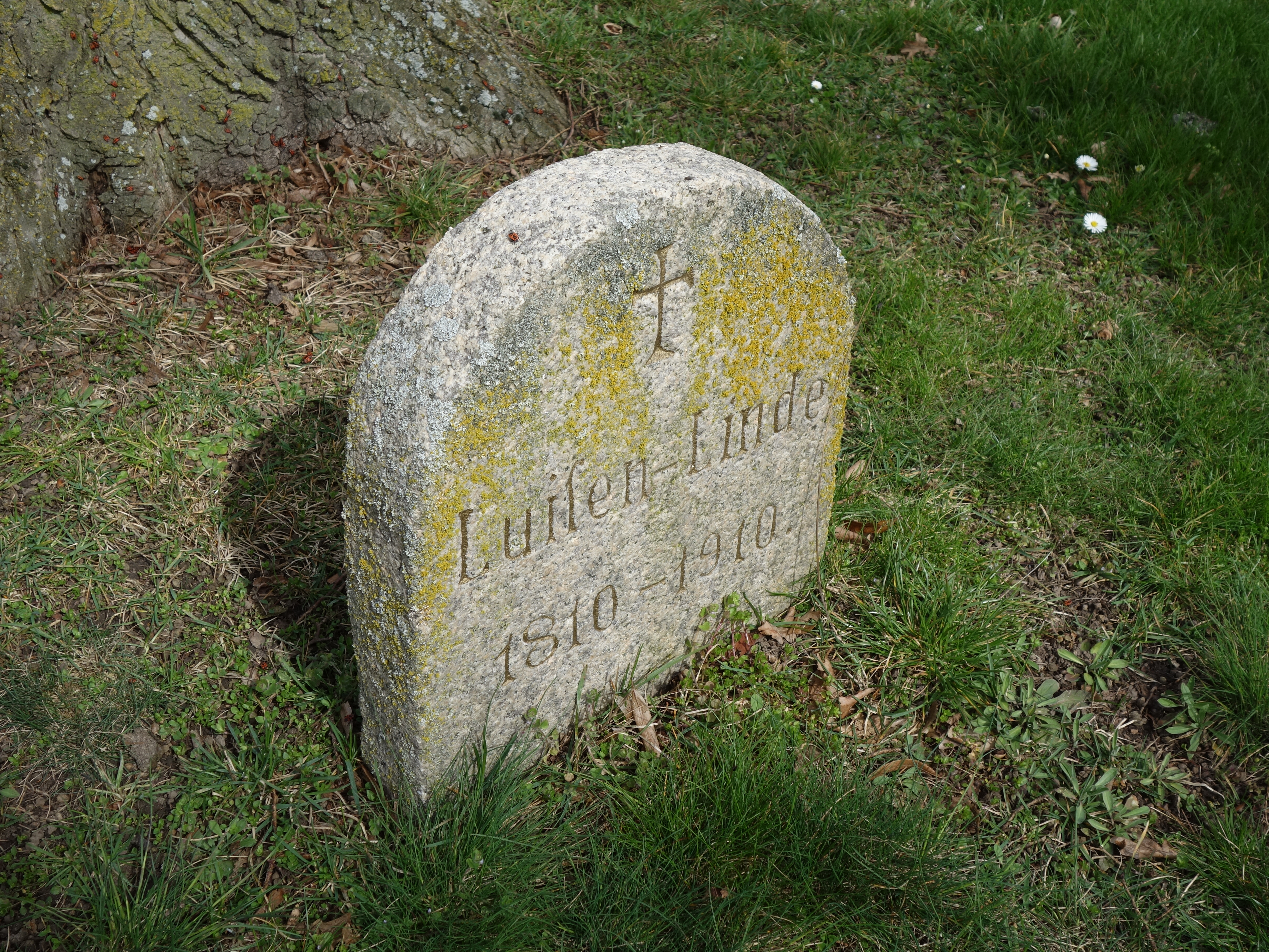 Commemorative stone at the lime-tree planted 1910 in remembrance of the Prussian Queen Louise in Babitz, Wittstock municipality, Ostprignitz-Ruppin district, Brandenburg state, Germany